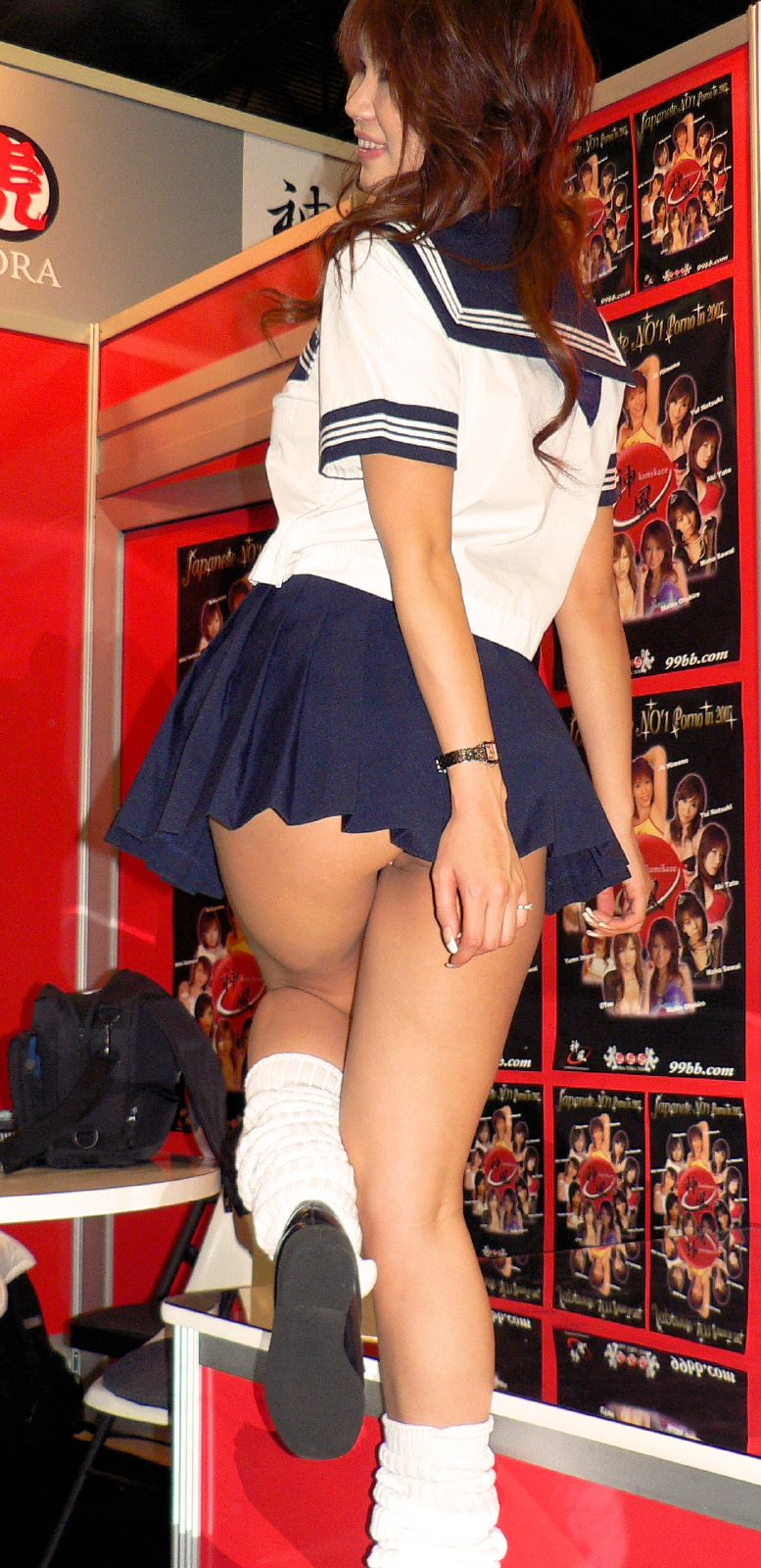 An Asian model explores the sailor meme at Adult Entertainment Expo 2007